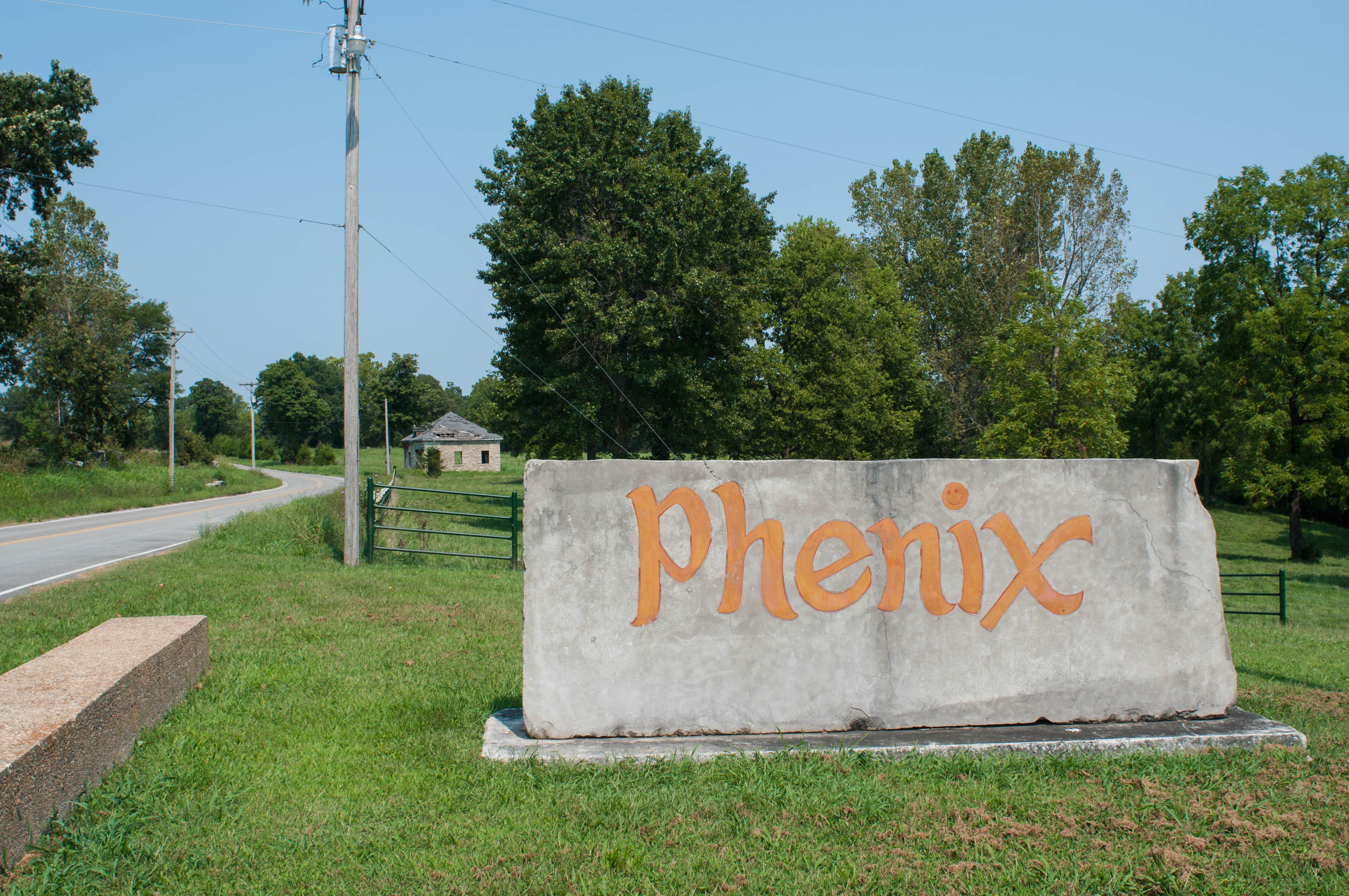 A sign, likely used to commemorate the old mining community, directly in front of the entrance of the quarry.